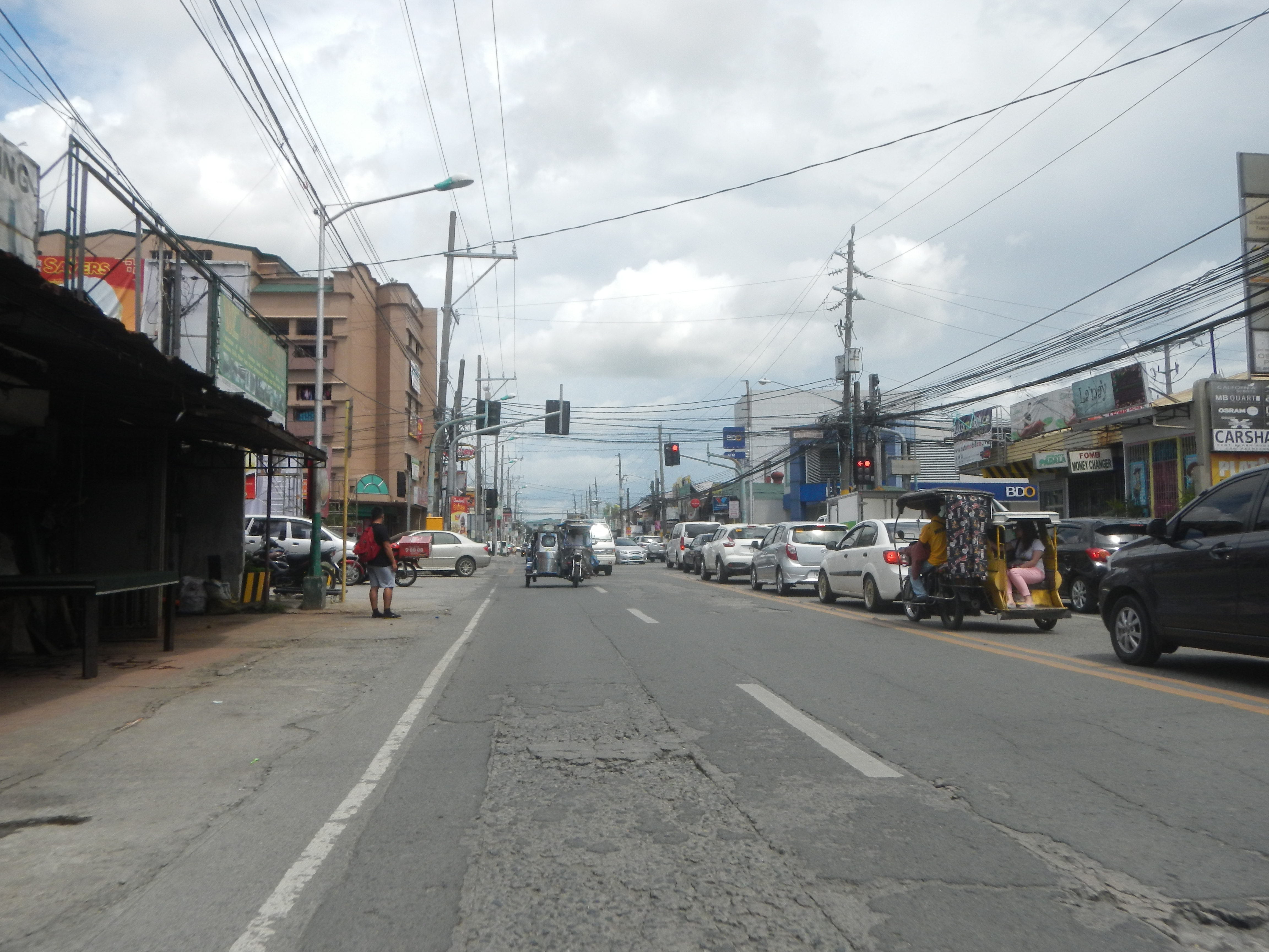 Better Living, Don Bosco, Parañaque City SM City Bicutan along Doña Soledad Avenue (Better Living, Don Bosco and Sun Valley, Sucat, Parañaque City) in Districts and barangays Don Bosco 14°28'54"N 121°1'33"E Sun Valley 14°29'29"N 121°2'1"E Parañaque City Doña Soledad Avenue (Note: Judge Florentino Floro, the owner, to repeat, Donor Florentino Floro of all these photos hereby donate gratuitously, freely and unconditionally Judge Floro all these photos to and for Wikimedia Commons, exclusively, for public use of the public domain, and again without any condition whatsoever).